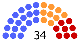 Made with ADSVote.